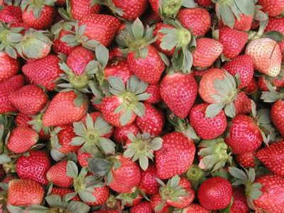 strawberries from La Trinidad, Benguet